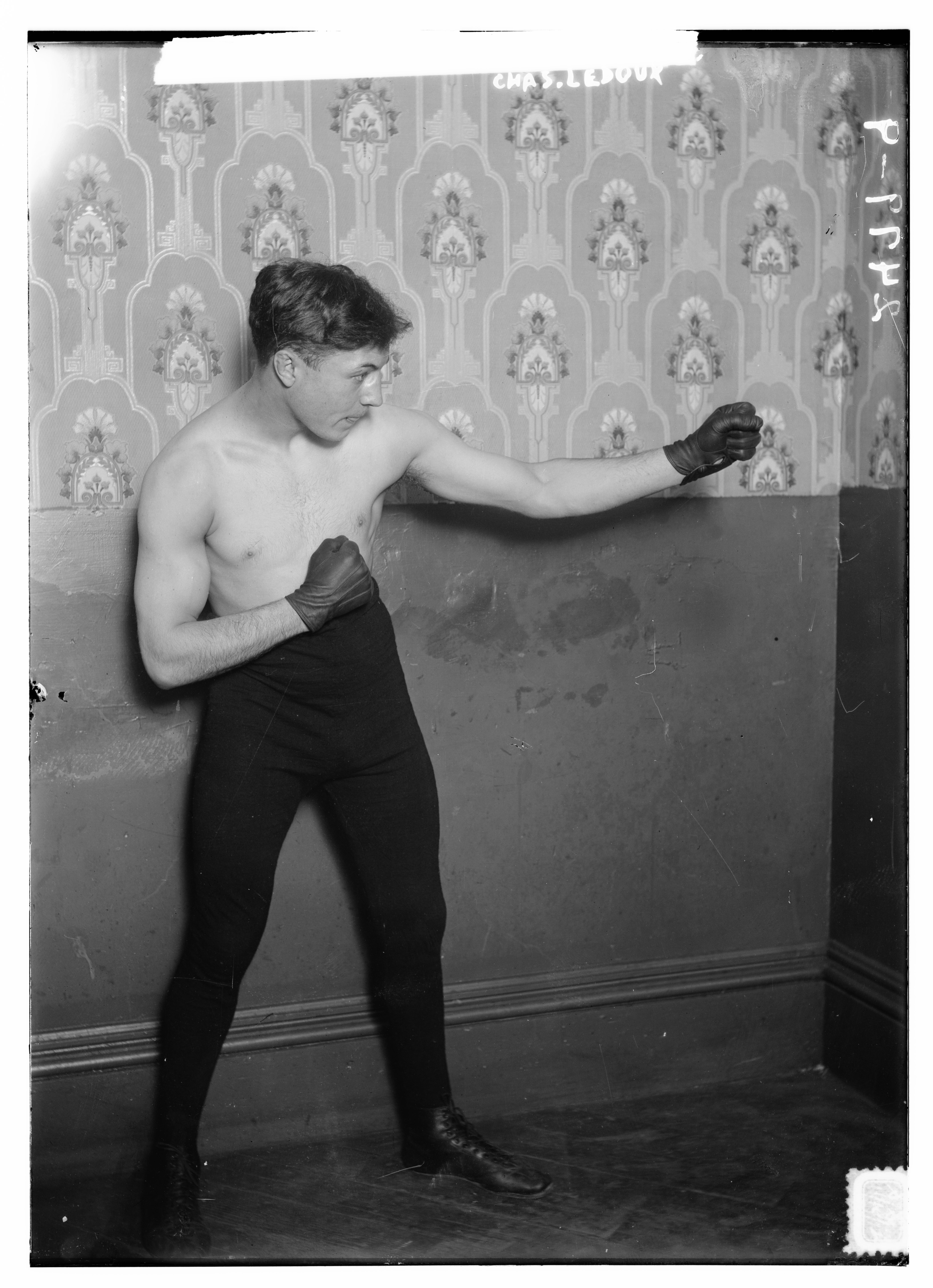 Title: French boxer Charles "Little Apache" Ledoux Abstract/medium: 1 negative : glass ; 5 x 7 in. or smaller.